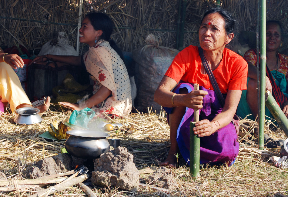 A Tiwa Women is Preparing her spices in a Bamboo hollow for her delicious and traditional food. অসমীয়া: জোনবিল মেলাত এগৰাকী টিৱা জনগোষ্ঠীৰ মহিলা